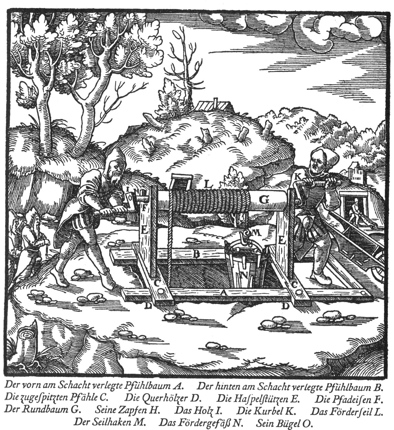 Illustration of a mining pit.